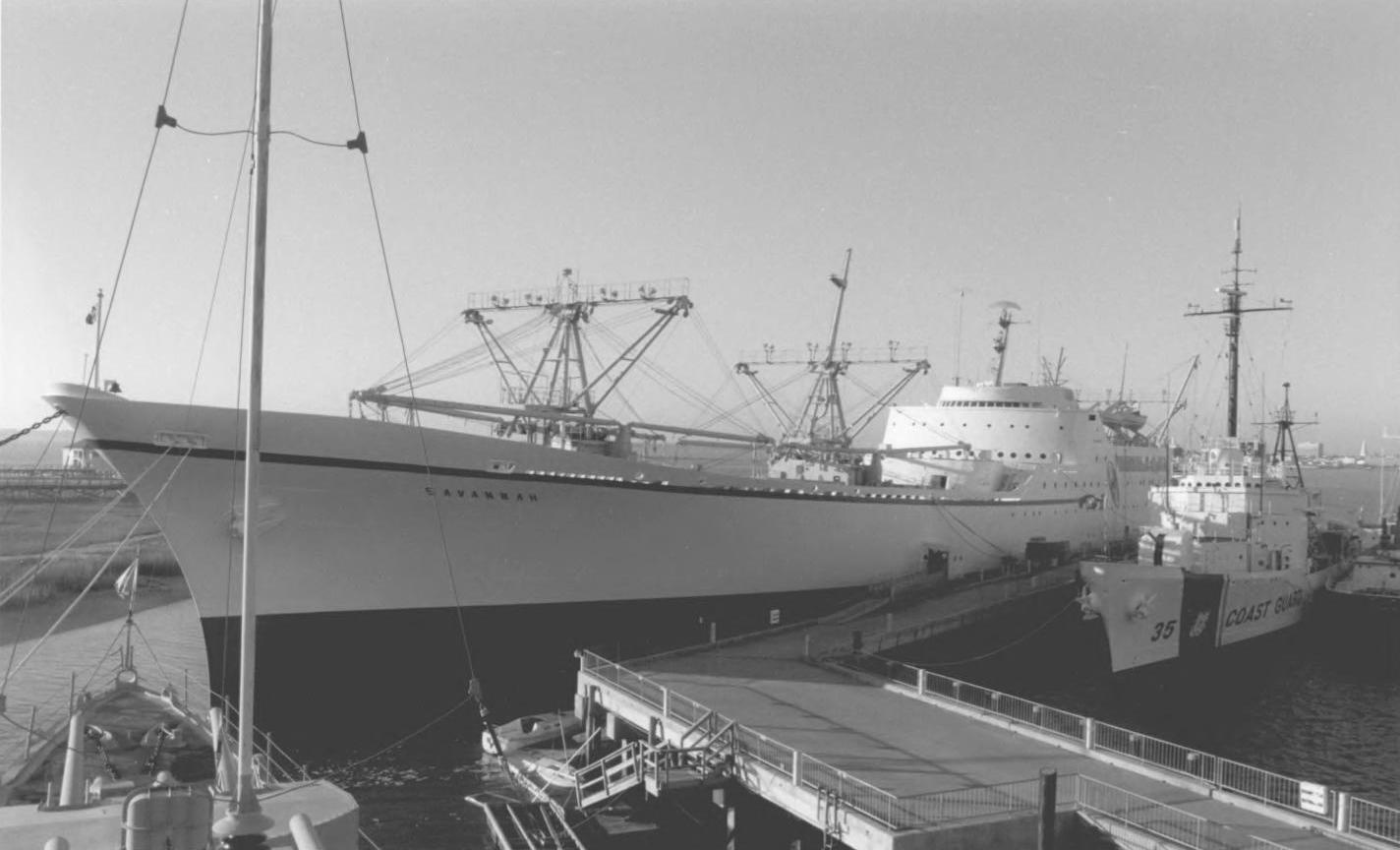 NS Savannah at Patriots Point, Mount Pleasant, South Carolina in 1990. (Cropped in 2008 to remove border including text label. Note, U.S.C.G.C Ingham appears to the right. Vantage is from the USS Laffey.)